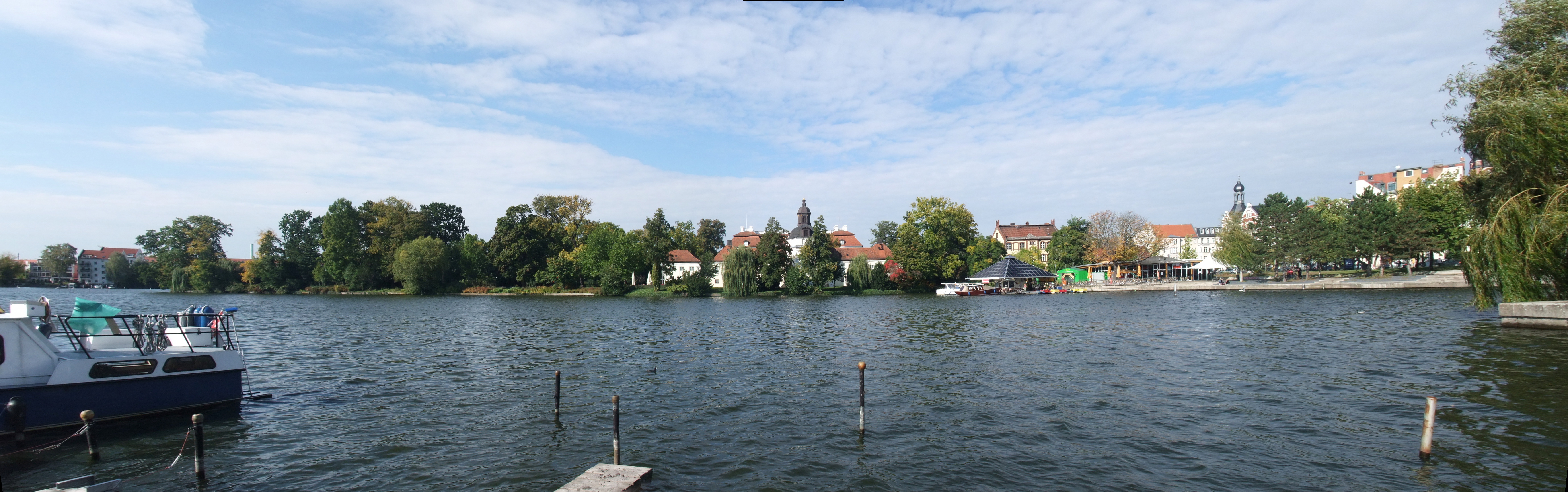 Schlossinsel (palace island) in Berlin-Köpenick, Germany